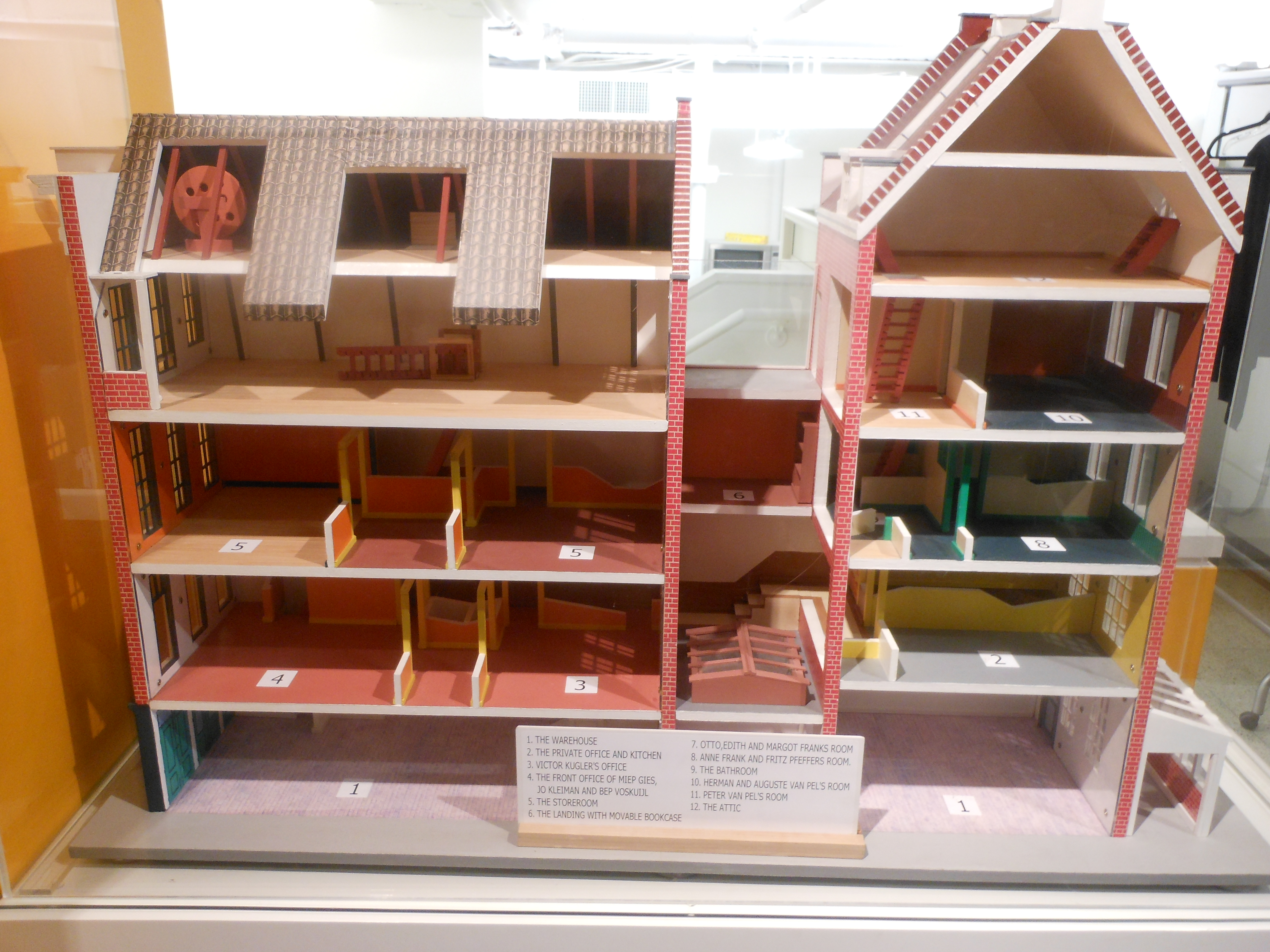 Model of the house where Anne Frank lived